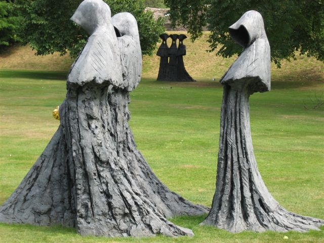 Sculptures by Philip Jackson, pictured during his one man exhibition Sacred and Profane, at the Bishop's Palace in Wells, Somerset. In the foreground is Cloister Conspiracy, while in the distance is Serenissima.